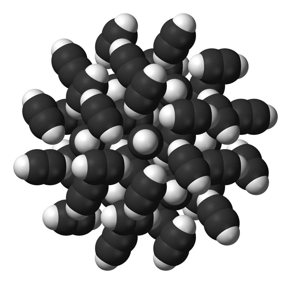 Space-filling model of part of the crystal structure of the cubic (Pa3) phase acetylene, C2H2, at 141 K. View along the [111] direction. Neutron crystallographic data from Acta Cryst. (1992). B48, 726-731. Model constructed in CrystalMaker 8.1. Image generated in Accelrys DS Visualizer.